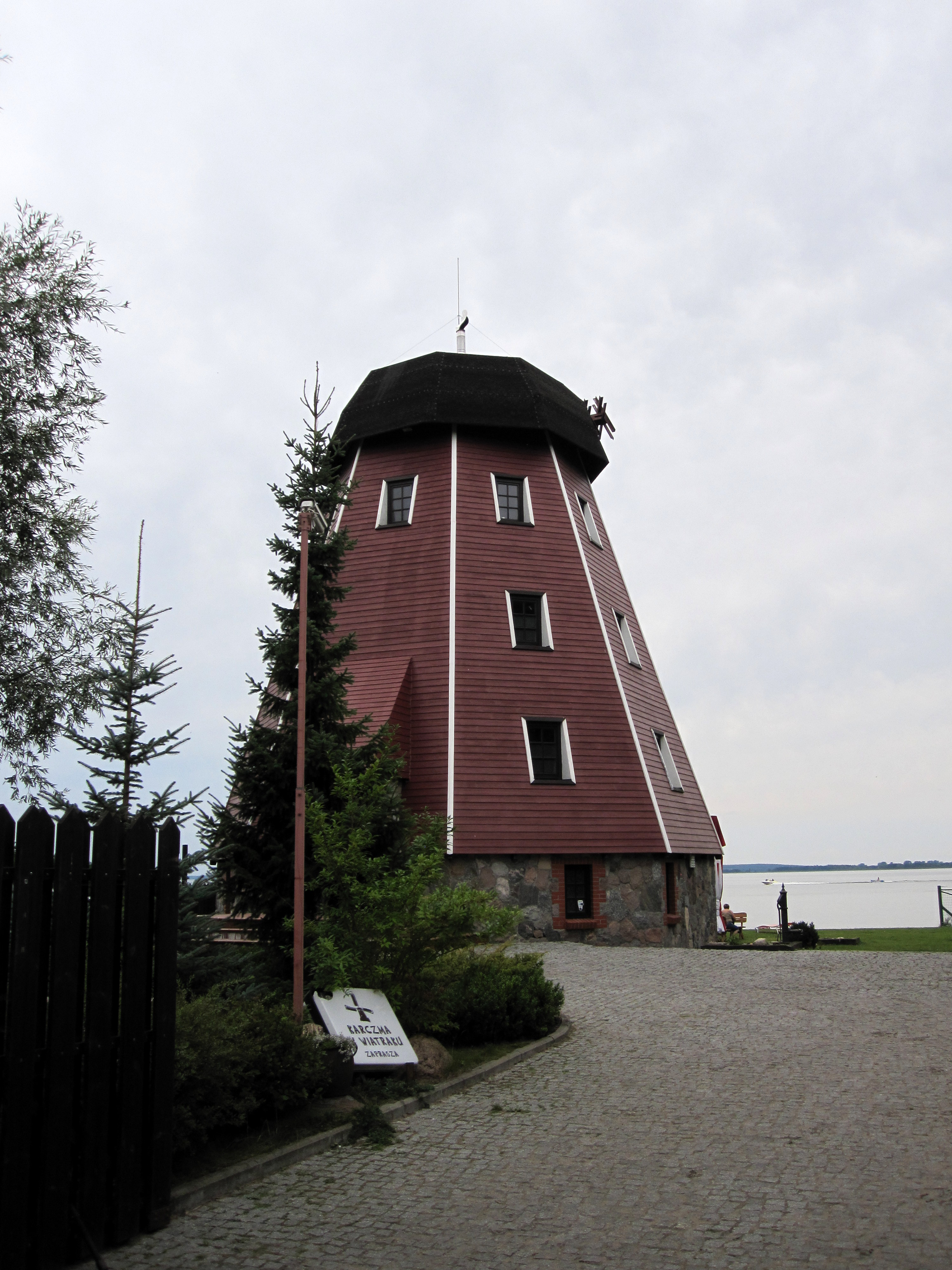 Dutch mill in Nowe Guty